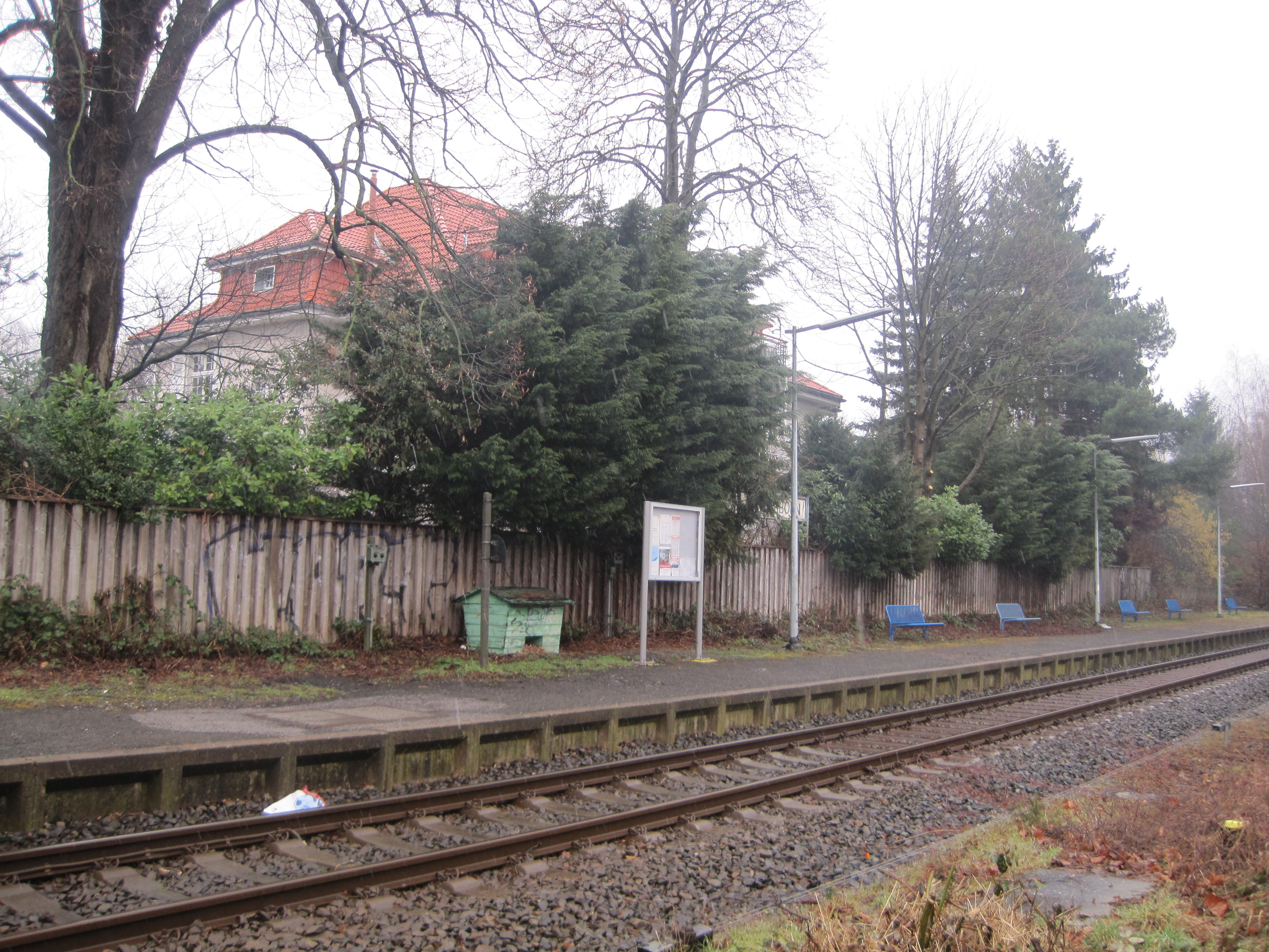 Aw Paderborn station, Paderborn, Germany check usage